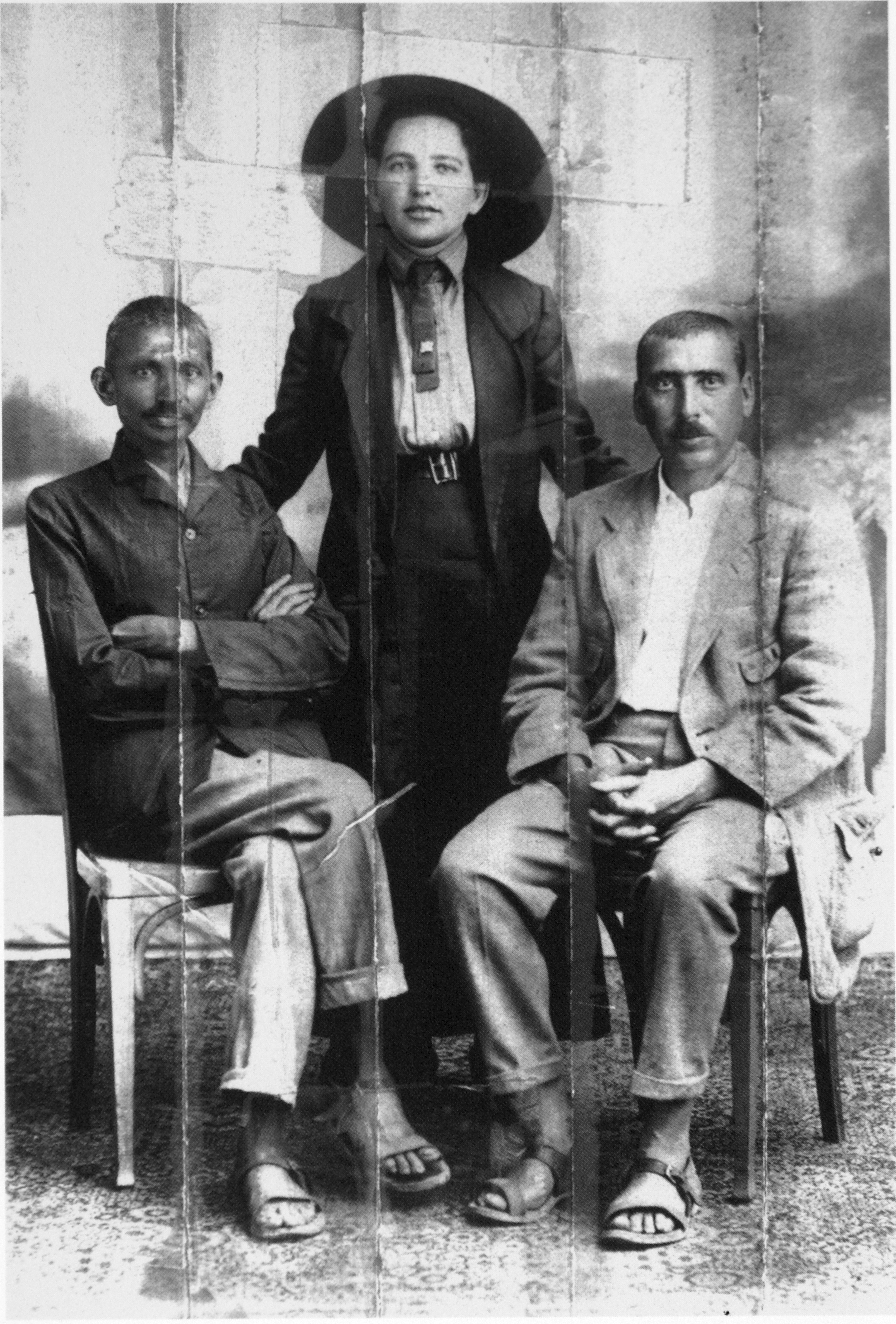 Gandhi, Sonia Schlesin, his secretary, and Dr. Hermann Kallenbach. Kallenbach sewed this photo in the collar of his jacket before joining Gandhi in England during the First World War. Being of German origin, he feared being arrested and the image seized. He was effectively arrested, but the police never discovered the photo.